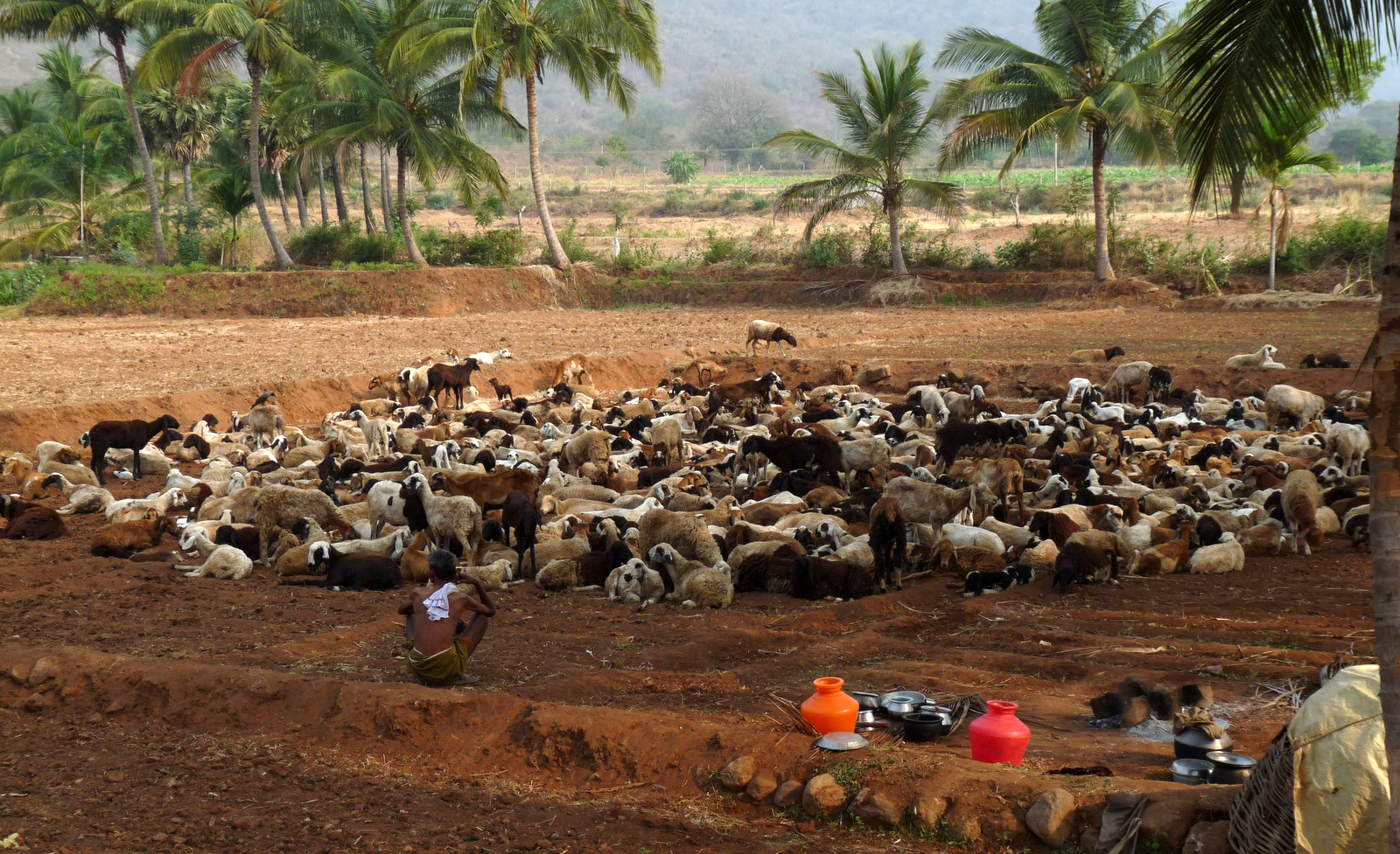 Cattle Grazer waiting under a shade of coconut tree along with his sheep. ஆடு மேய்ப்பவர்.